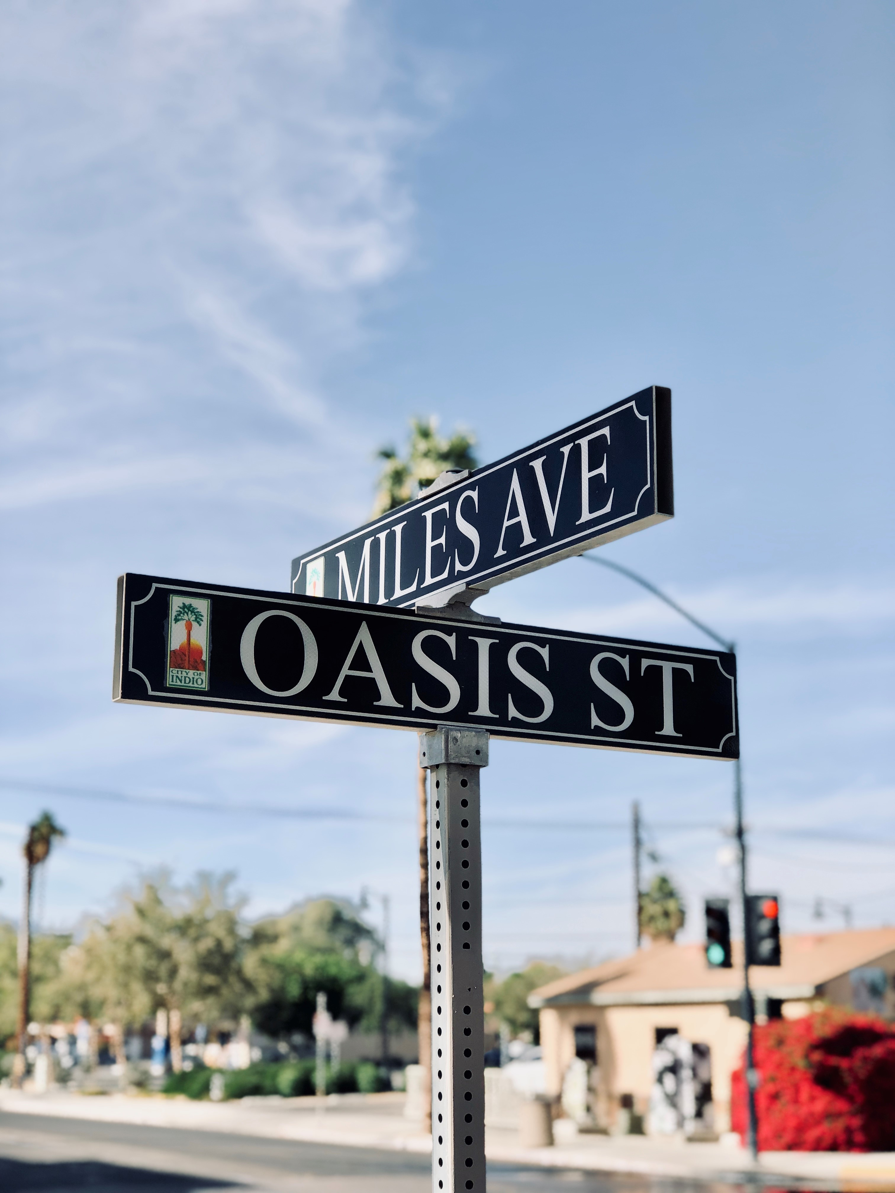 This is the intersection of Miles Avenue and Oasis Street where the Old Town Indio begins.